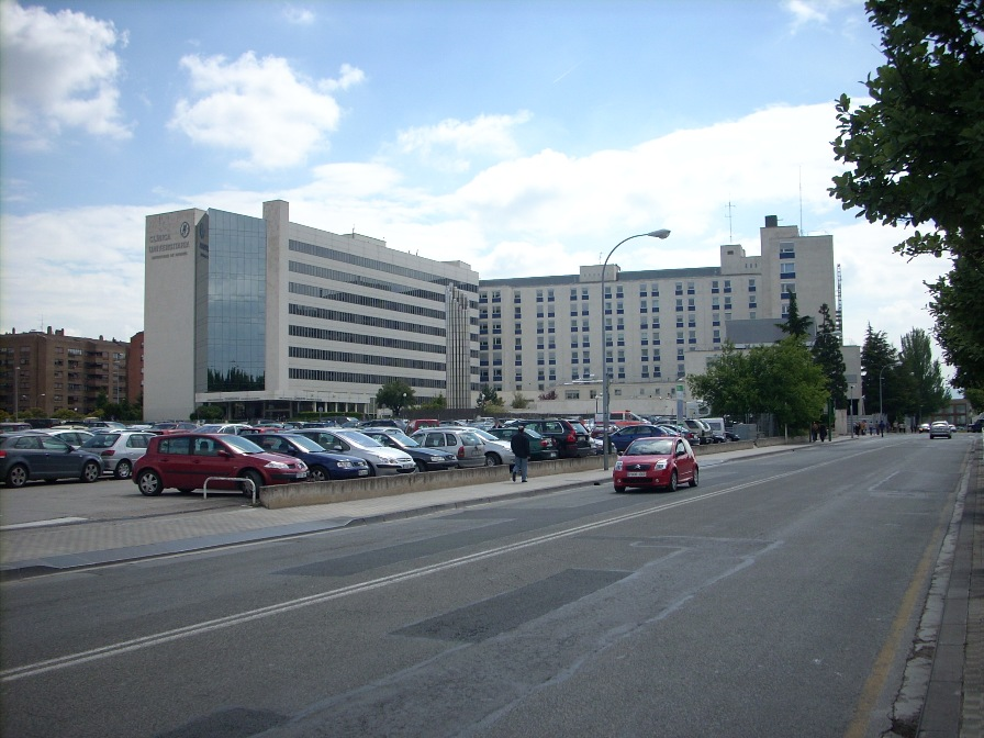 The "Clinica Universitaria" of Pamplona, a part - with its medical school (1954) - of the University of Navarra, is one of the most renowned teaching hospitals in Spain. The "Clinica" had, among its founders in 1961, Eduardo Ortiz de Landazuri and Juan Jimenez Vargas.